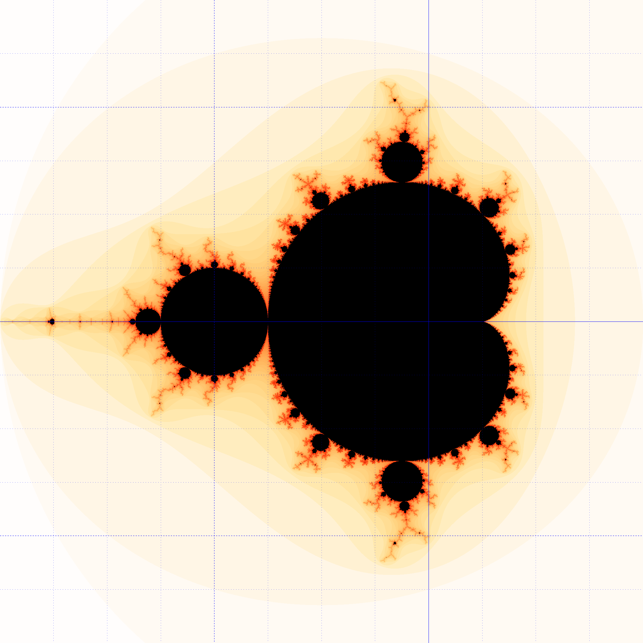 Mandelbrot set (black) in complex plane: Real(z) = -2 ... +1, Imag(z) = -1.5 ... +1.5